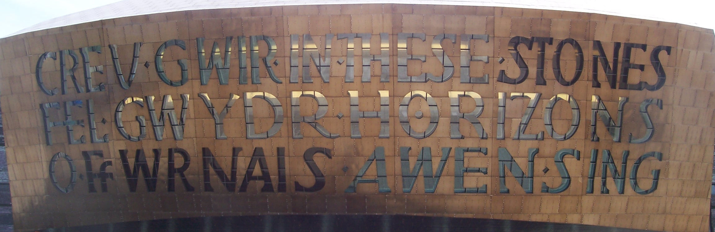 Wales Millennium Centre, Cardiff, Wales